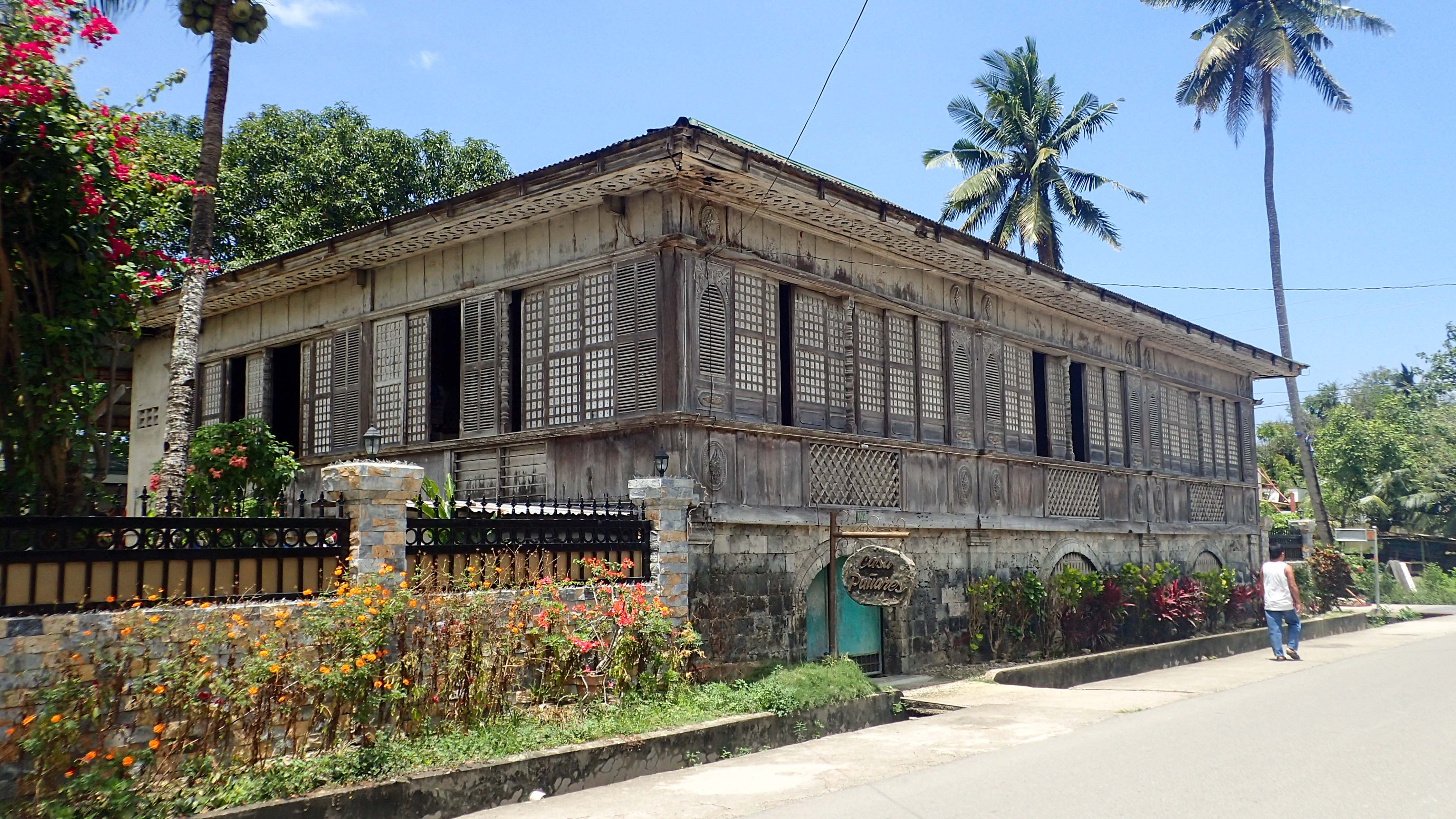 Panares Ancestral House has a depressed elevation due to rural developments